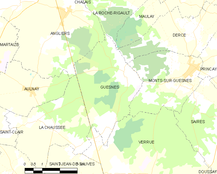 Map of French municipality Guesnes